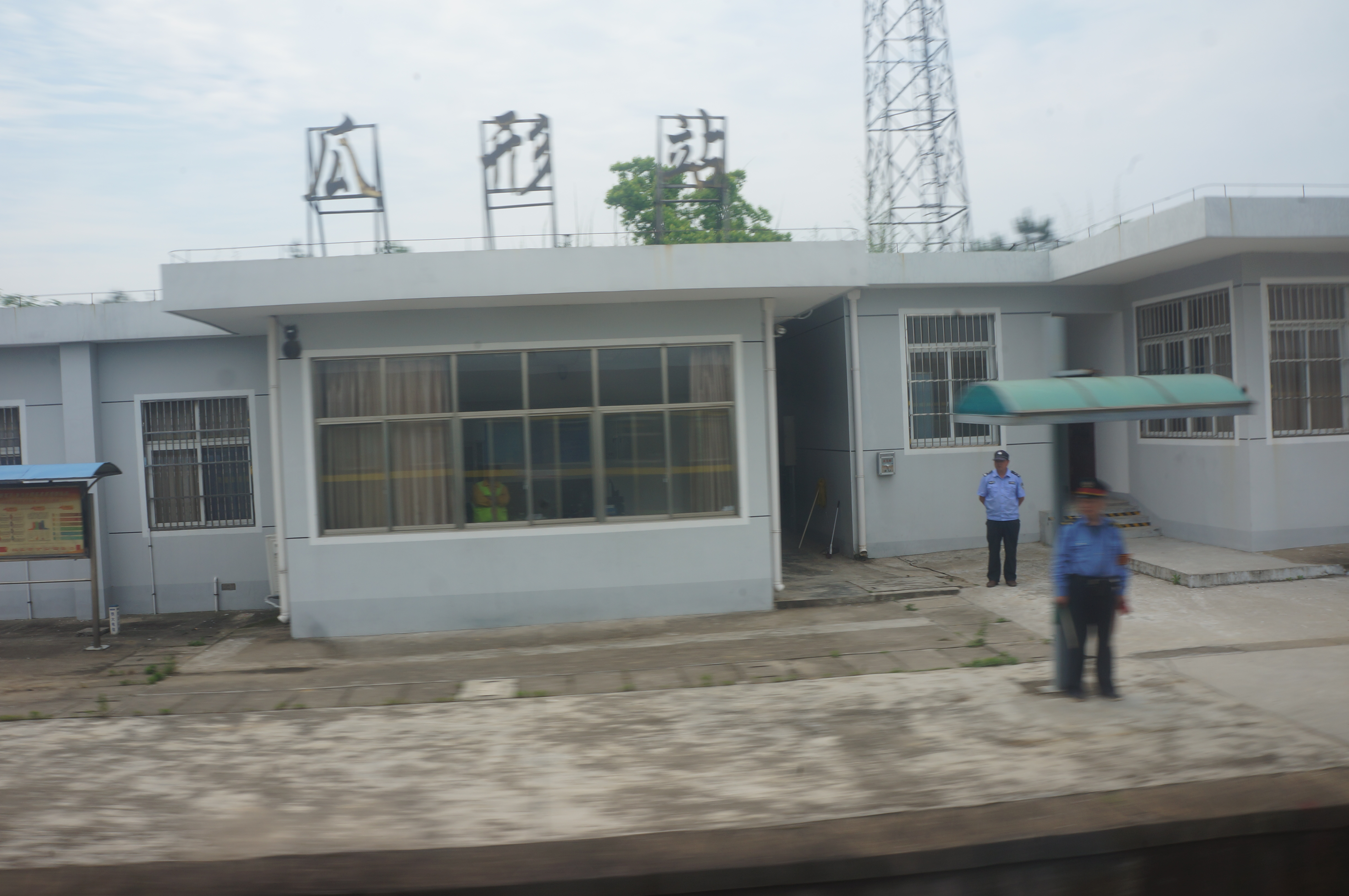 The delayed train K92 wait for our passing on the track another side, it supposed to wait for us at Anqingxi...I lost a chance to shoot DF11G